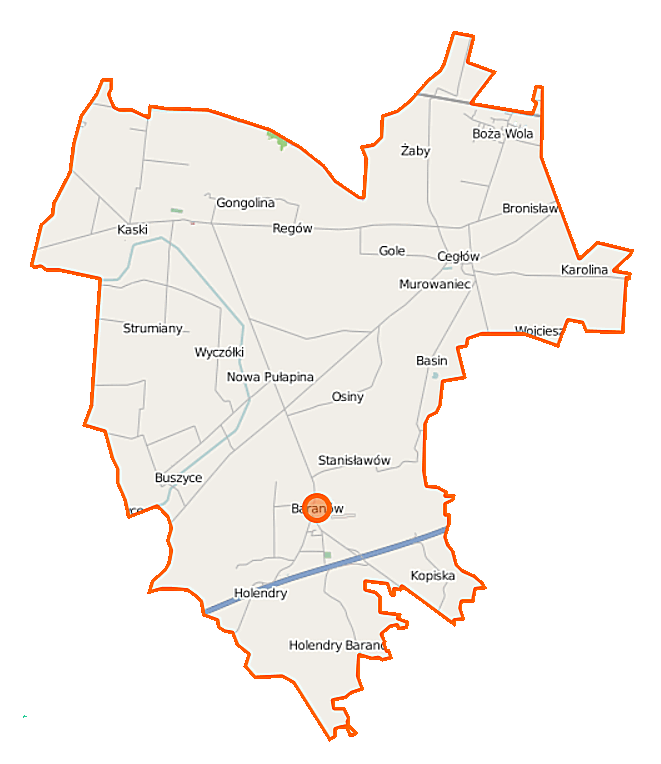 Map of Gmina Baranów, Poland This map of Baranów (gmina w województwie mazowieckim) was created from OpenStreetMap project data, collected by the community. This map may be incomplete, and may contain errors. Don't rely solely on it for navigation. Border coordinates52.208720.3858←↕→20.566752.0797